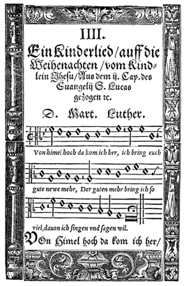 Luther's Christmas hymn Vom Himmel hoch in a print from 1567, Digital Image Archive, Pitts Theology Library, Candler School of Theology, Emory University